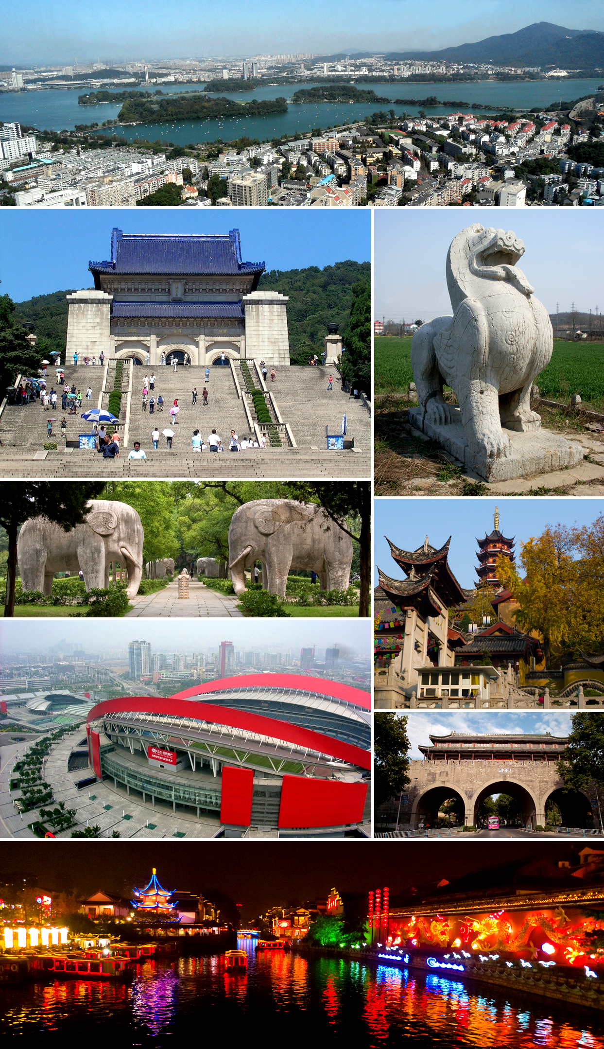 Montage of various Nanjing images